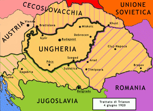 Effects of the Trianon Treaty on Hungary, in Italian. Effetti del Trattato di Trianon sull'Ungheria.